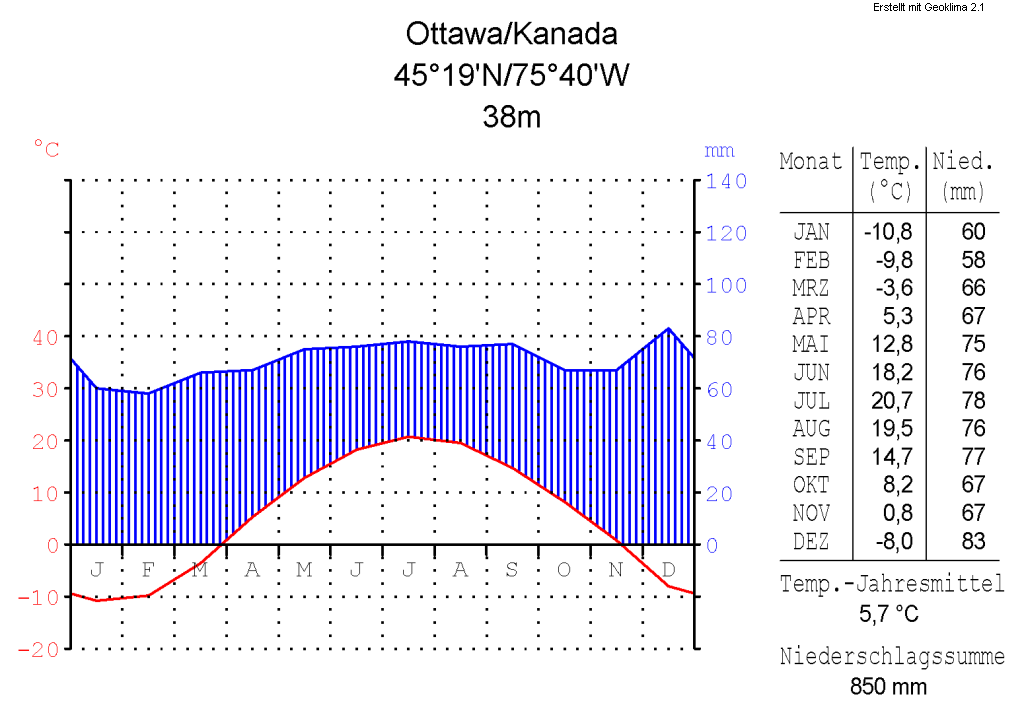 climate chart in the format by Walther and Lieth, metric, °Celsisus and millimeters, made with Geoklima 2.1